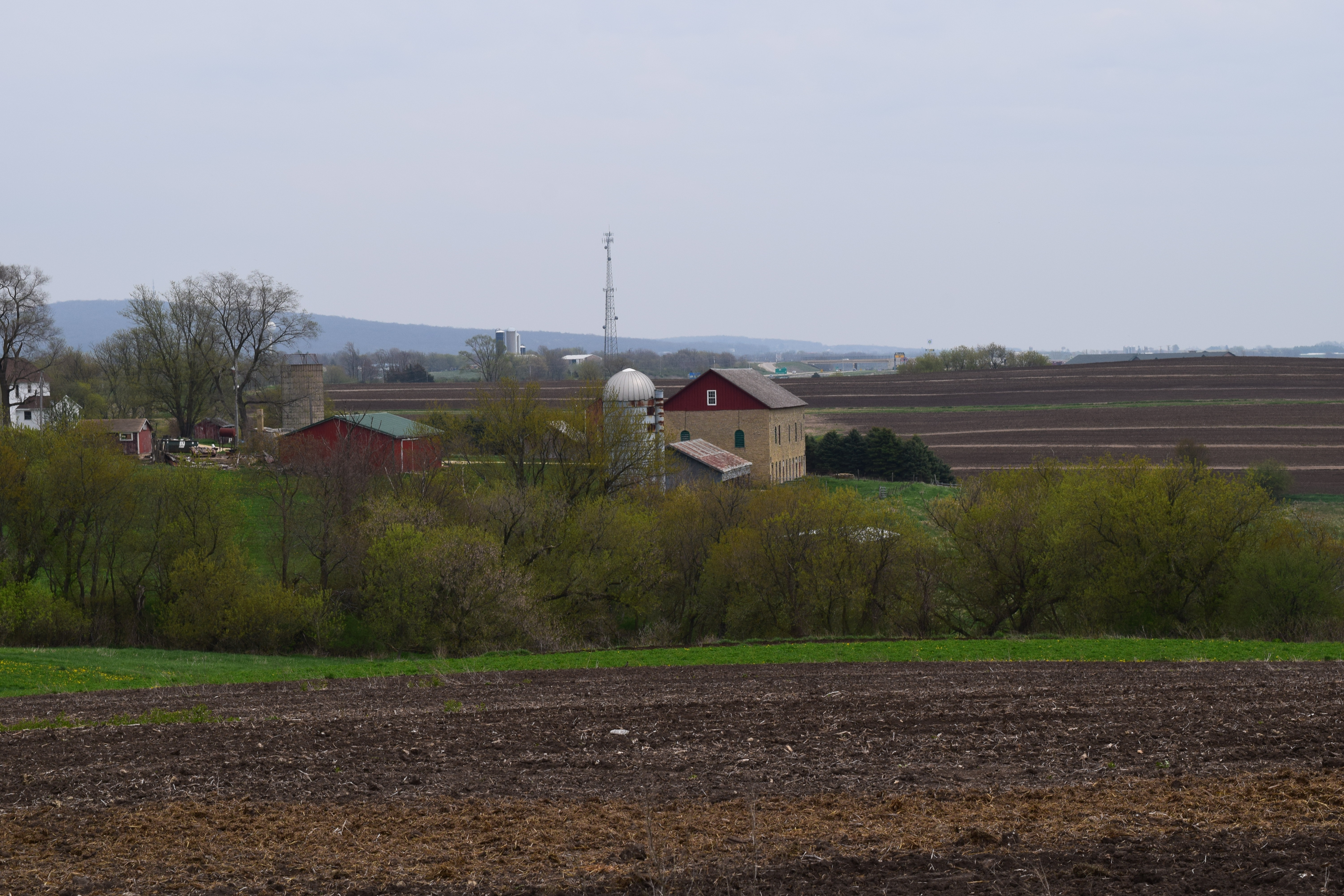 The Thomas Stone Barn and its surroundings, Brigham, Wisconsin